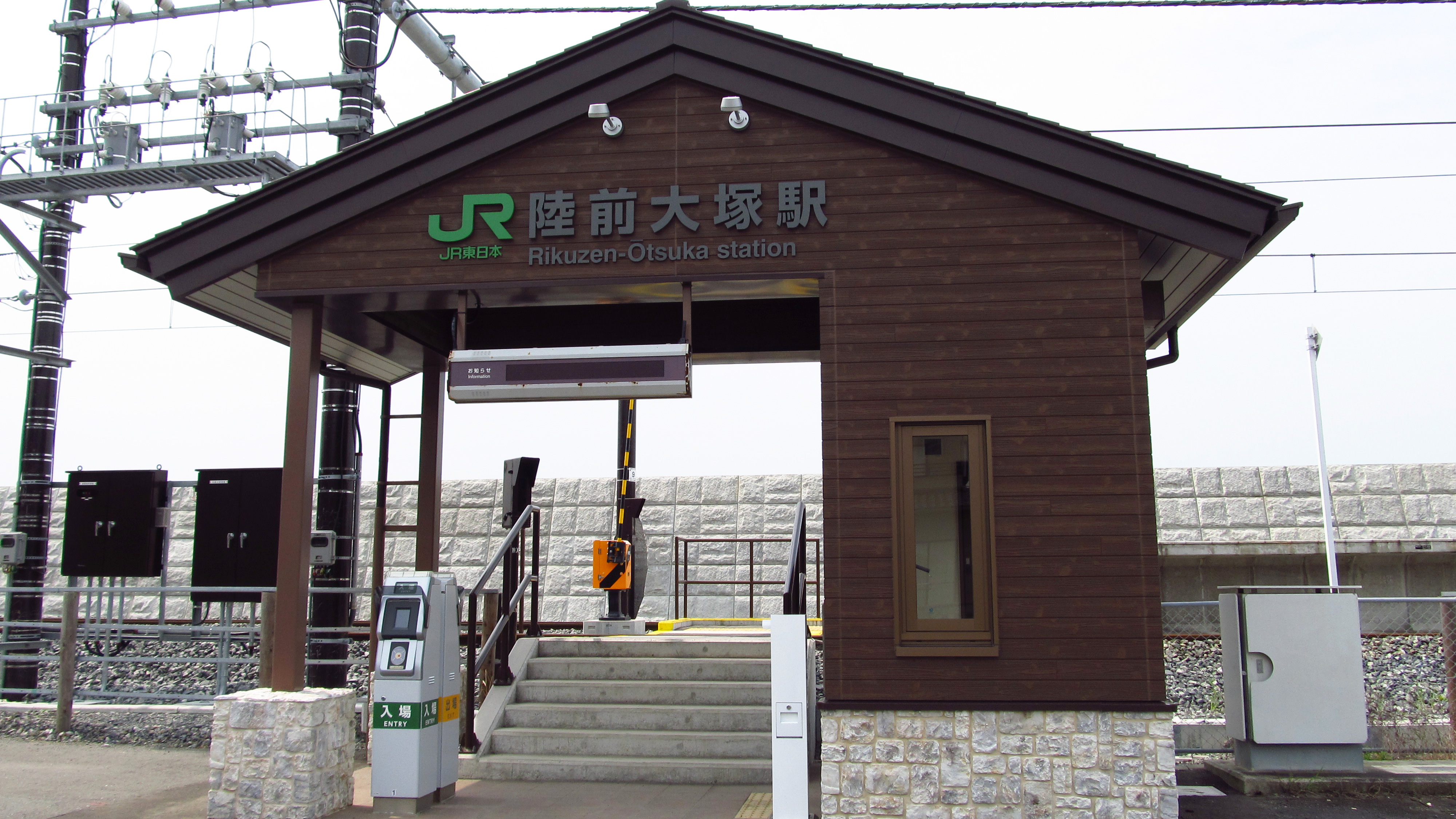 The entrance to Rikuzen-Ōtsuka Station on the Senseki Line in Higashi-Matsushima city, Miyagi Prefecture, Japan